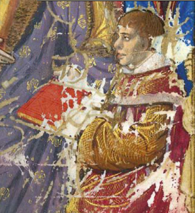 illumination of the early 16th century